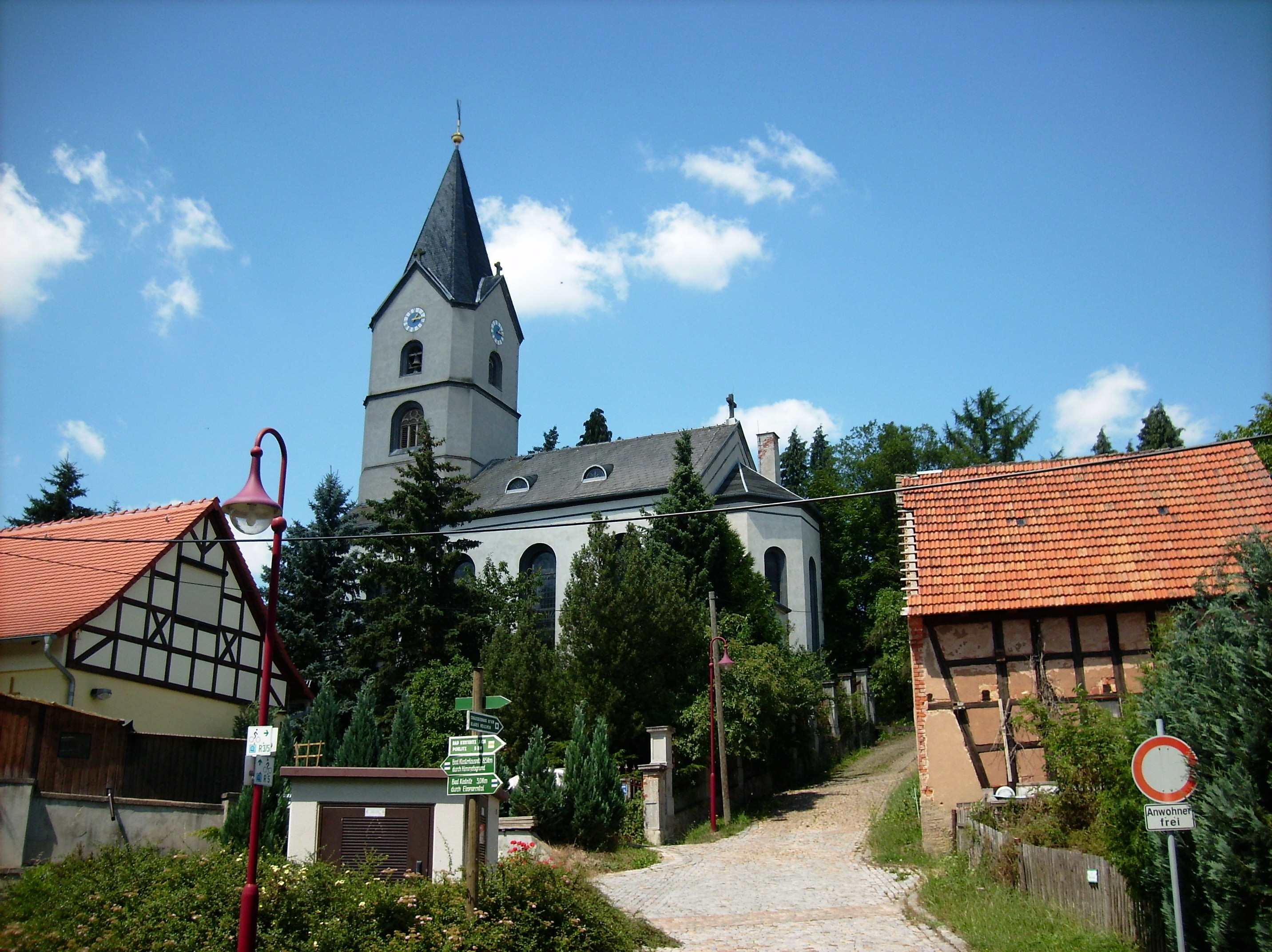 Church of the village of Reichardtsdorf (Bad Köstritz, Greiz district, Thuringia)